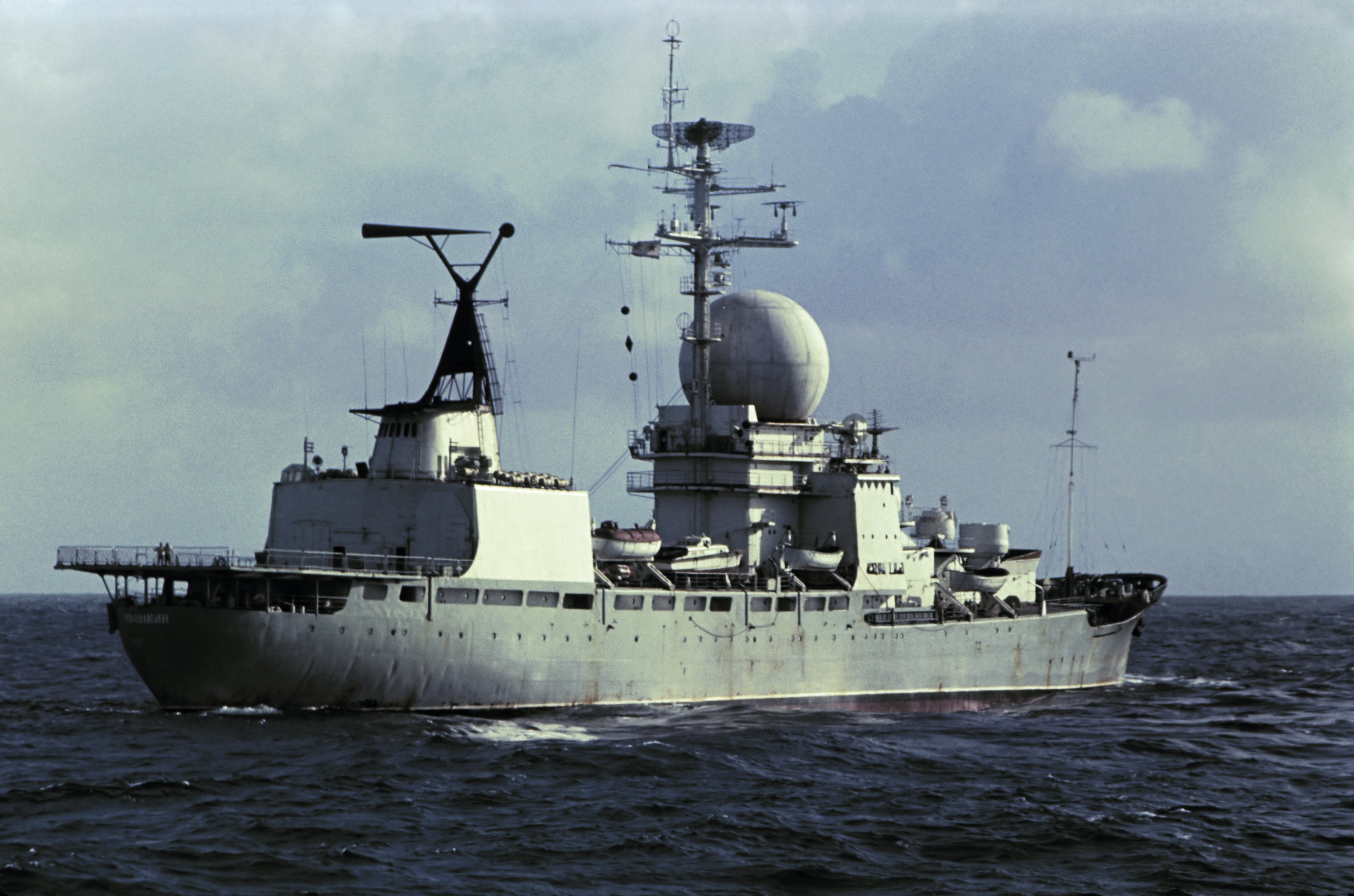 Soviet tracking ship Chumikan, taken in 1982.